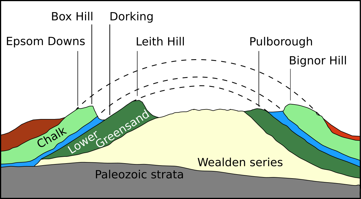 Geological cross section of the western Weald showing the former Wealden anticline. The chalk of the North and South Downs as well as the Lower Greensand are indicated. The stratum in blue is Gault clay and Upper Greensand. The strata in brown are Tertiary deposits.